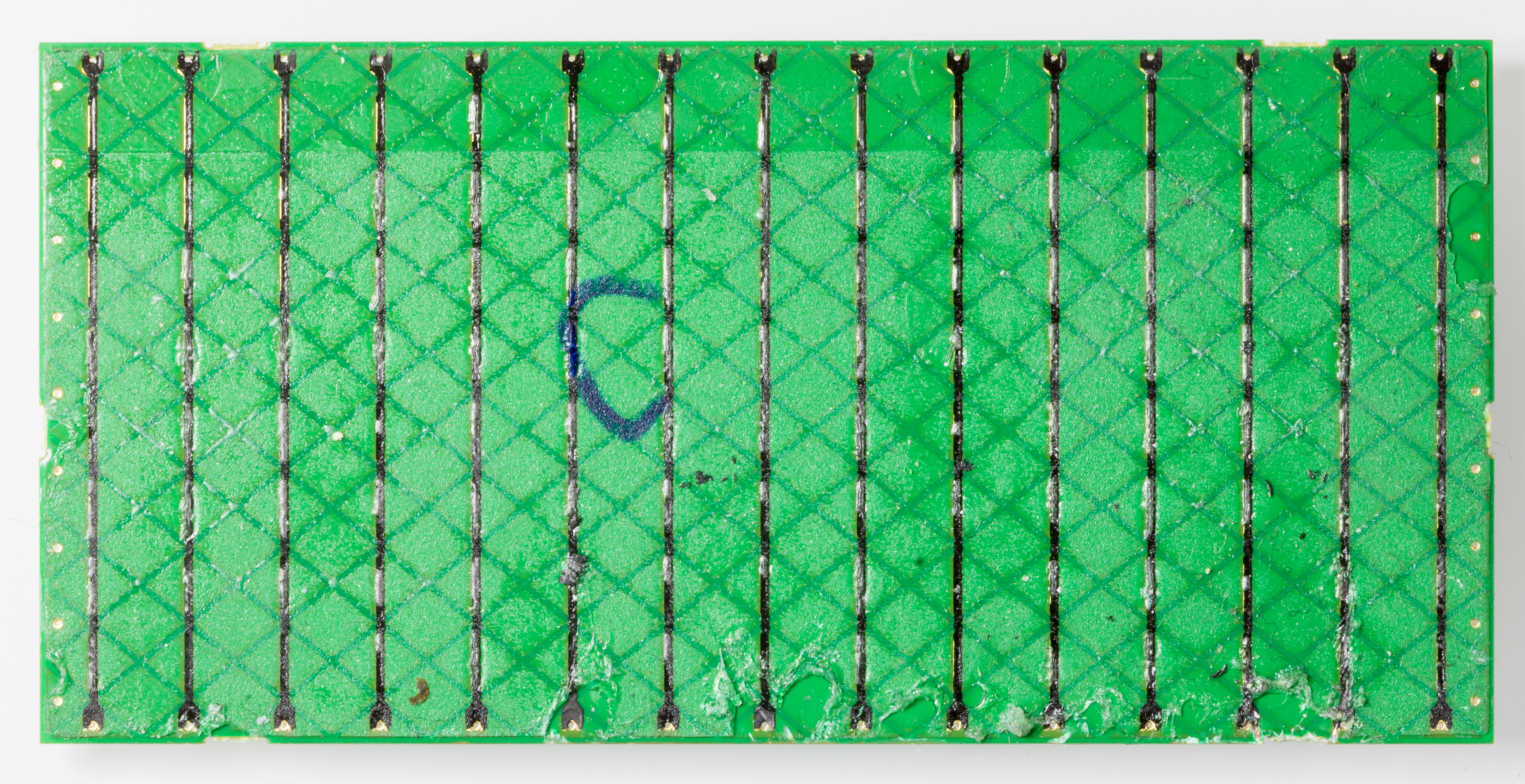 Synaptics touchpad 920-000842-01 - touch side. It was glued with the plastic of the keyboard